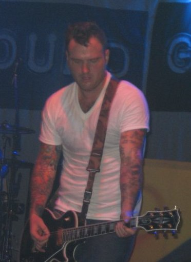 Chad Gilber, lead guitarist of rock band New Found Glory, performing at the o2 Academy Bournemouth.